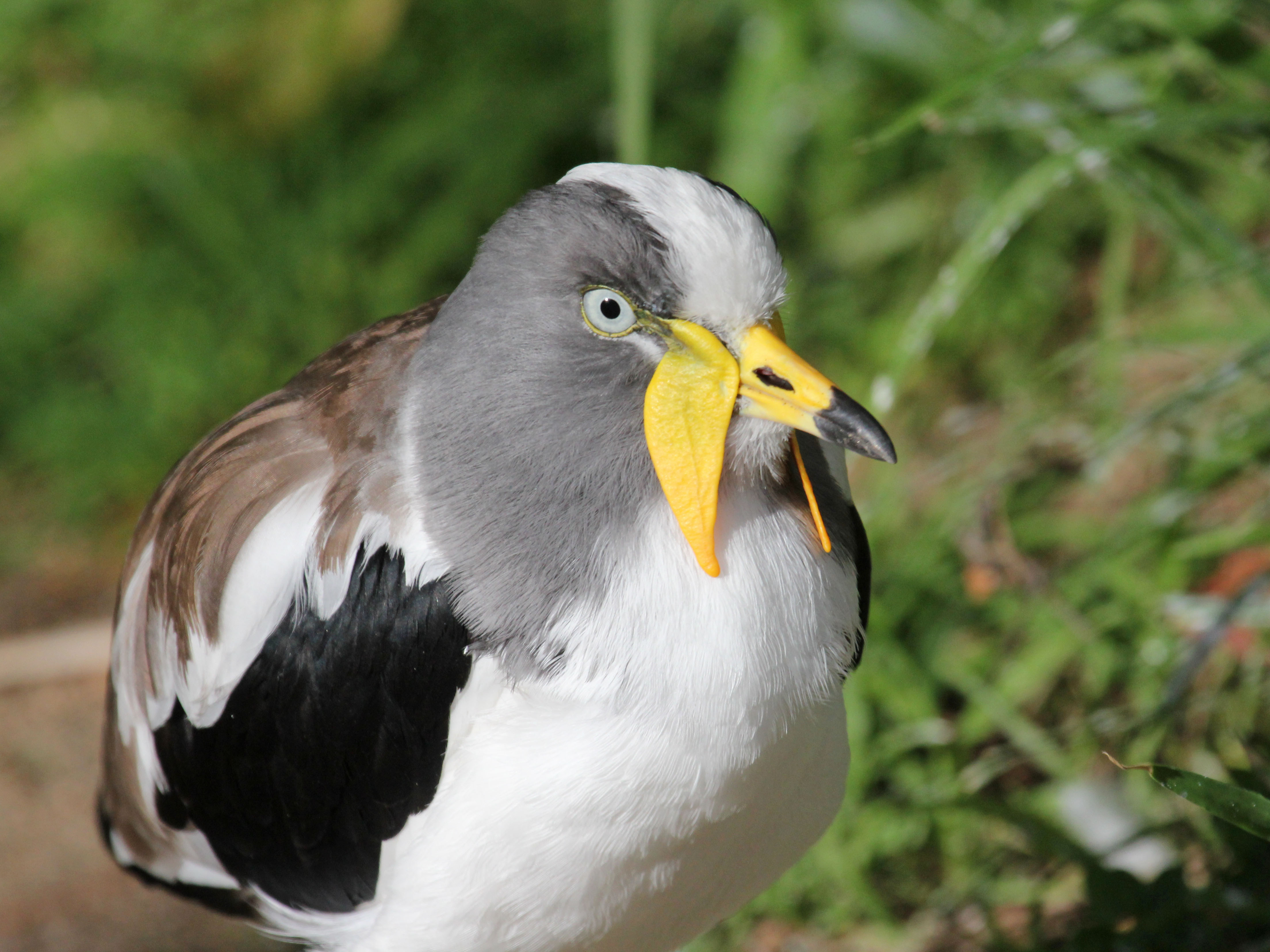 White-headed Lapwing, also White-crowned Plover (Vanellus albiceps) - San Diego Zoo